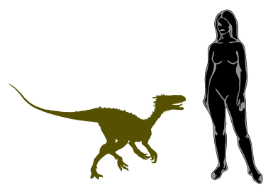 Scale diagram comparing typical human and Huaxiagnathus sizes